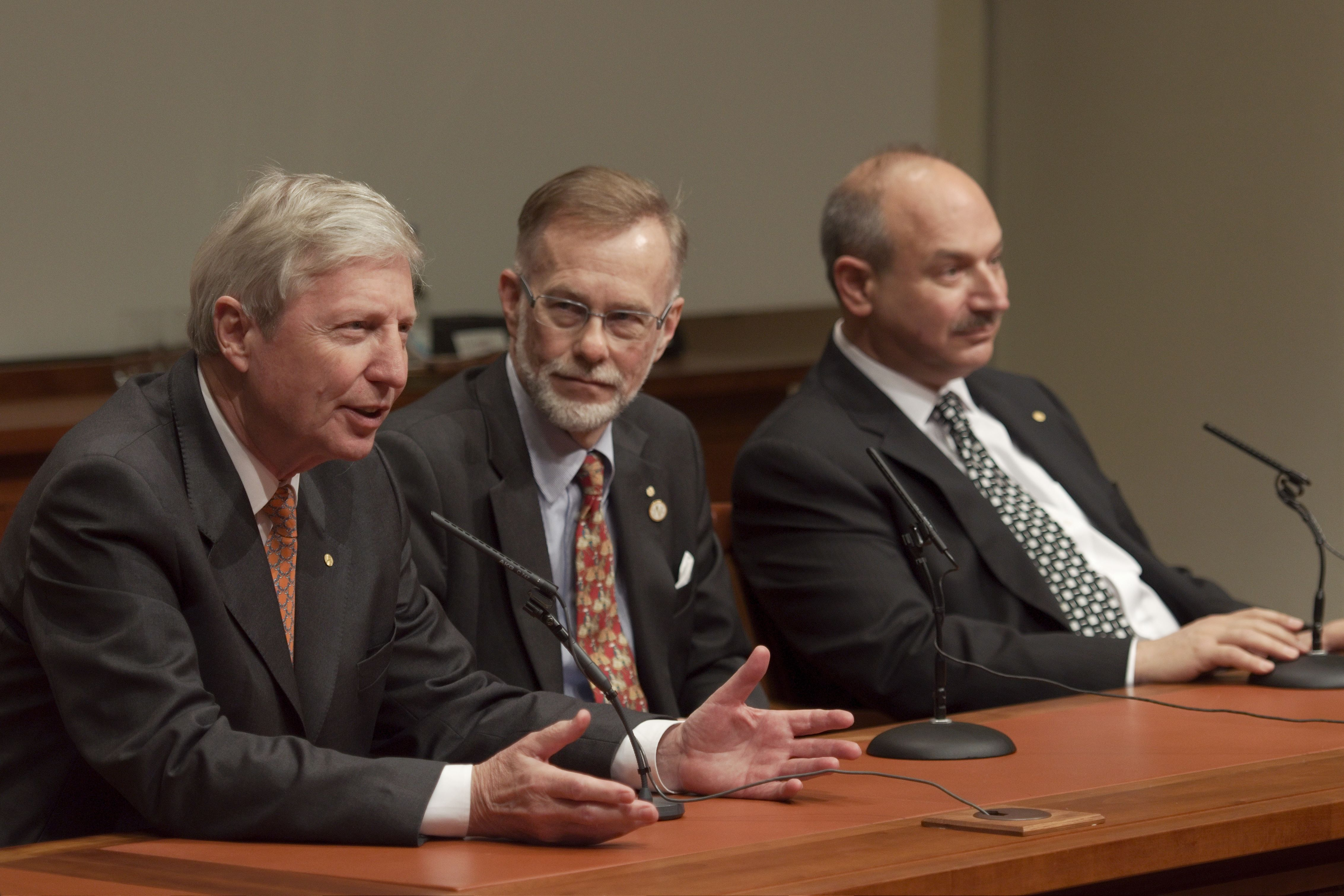 Nobel Prize 2011, press conference with the laureates of the Nobel prize in Physiology or Medicine: Jules Hoffmann, Göran K. Hansson, and Bruce Beutler.